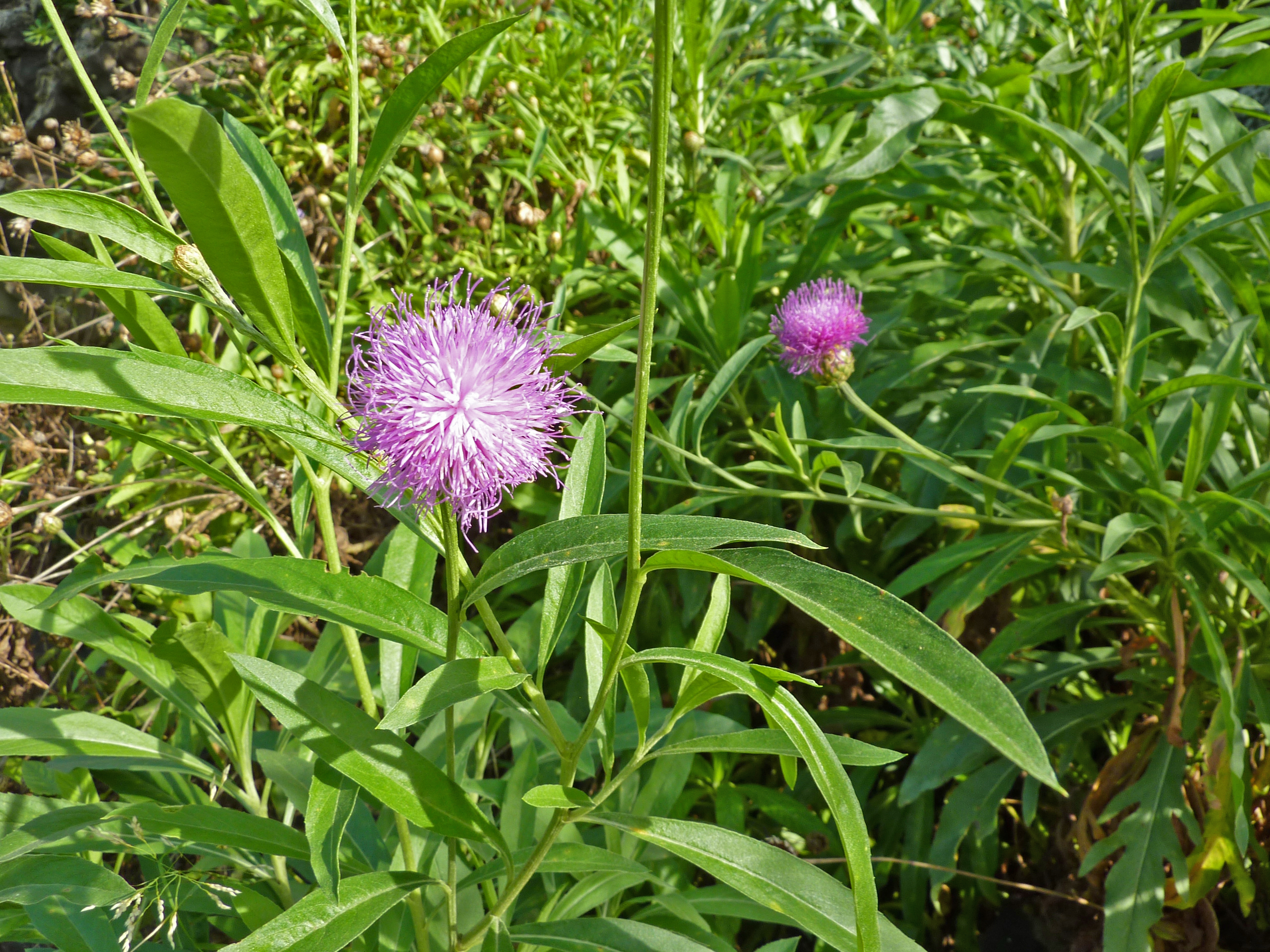 Cheirolophus junonianus var. isoplexiphyllus growing in the Jardín Botánico Canario Viera y Clavijo.